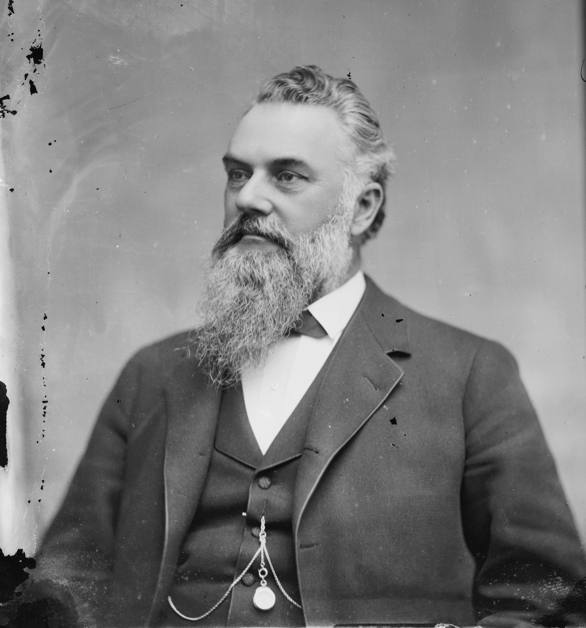 James Graham Fair. Library of Congress description: "Fair, Hon. Jas. G. of Nevada, Senator"